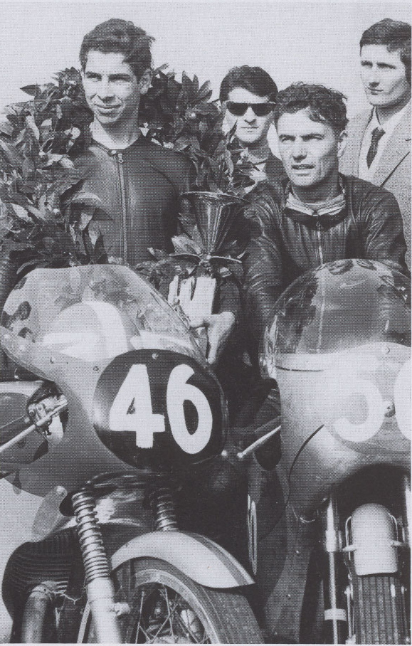 Ramon Torras (first from left) and Jim Redman (third from left), after a race, in Modena (1963)